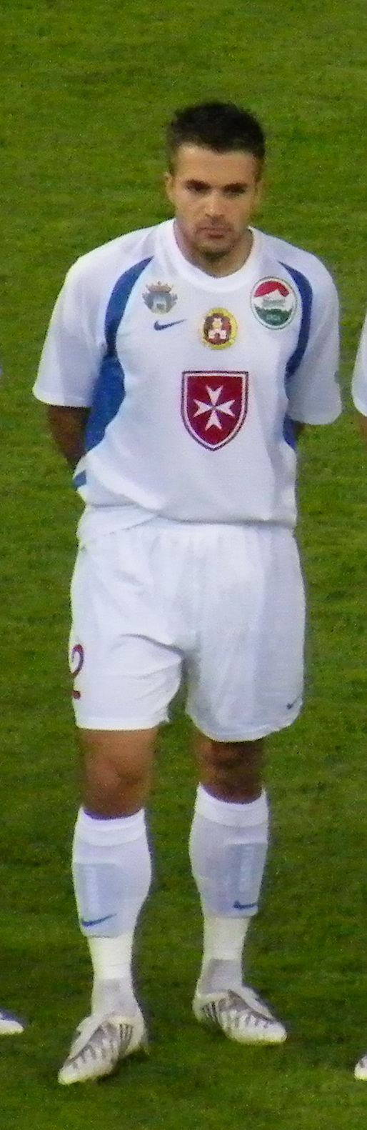 Marko Andić Serbian football player